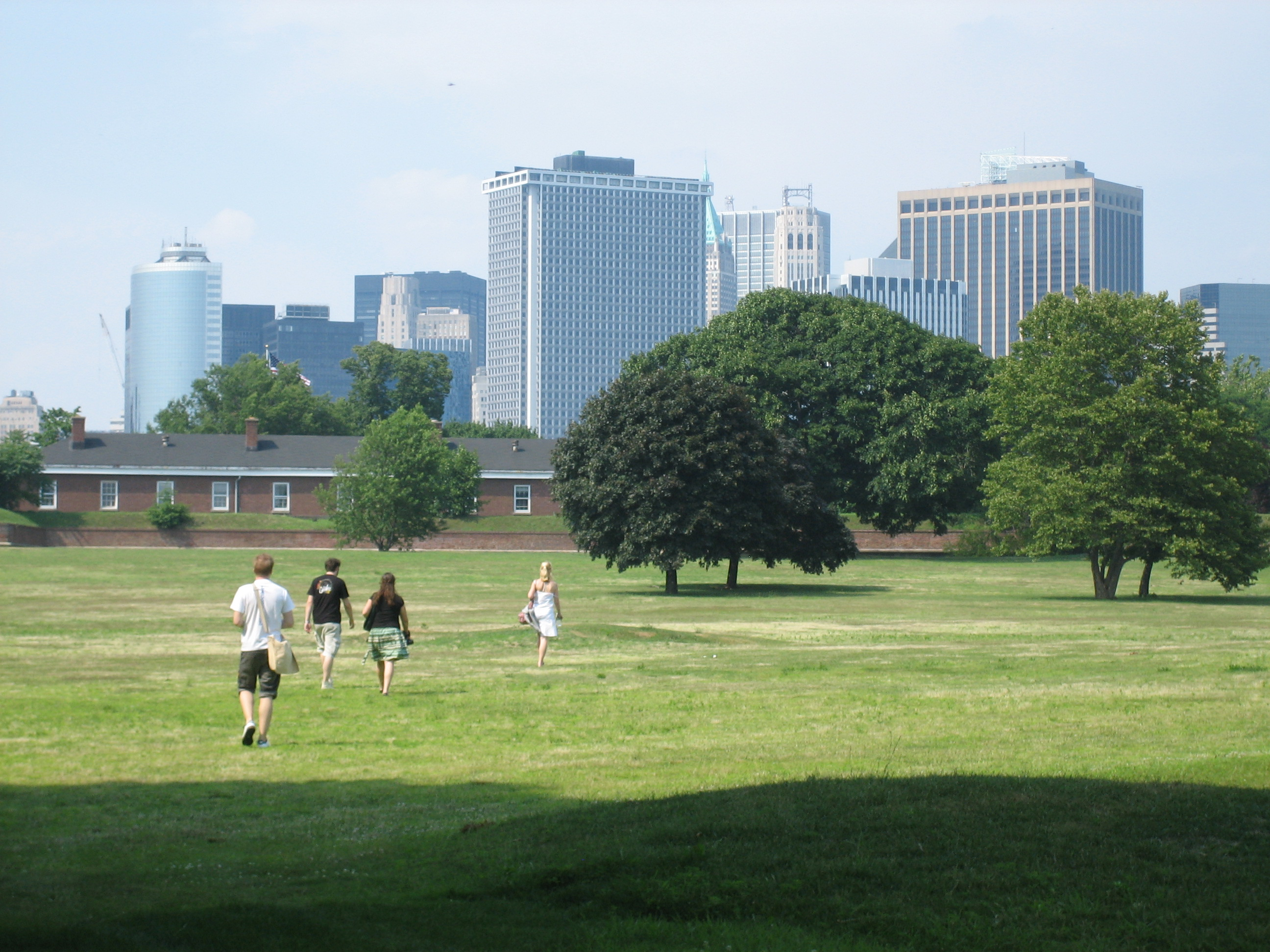 Looking across Fort Jay on Governor's Island to Lower Manhattan's Skyscrapers